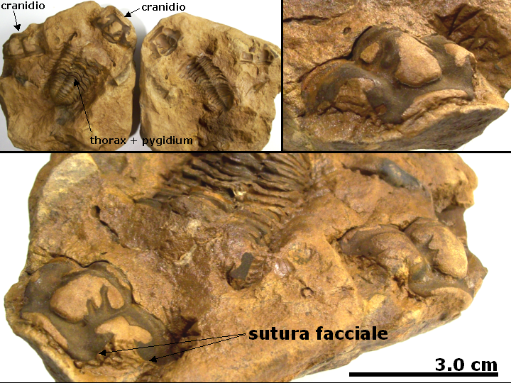 Calymenid trilobites from Erfoud (Morocco). These specimens were sold as devonian Calymene (sensu lato), but they may be better Colpocoryphe sp. (Ordovician) The specimens are exuviae, preserved into a calcareous nodule. The cranidium is separated from the thorax + pygidium ensemble and the librigenae ("free cheeks") are not preserved. Text in Italian.